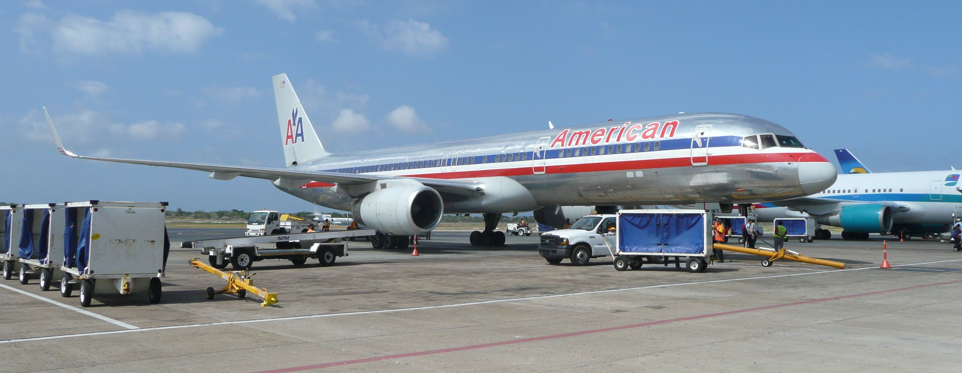 American Airlines Boeing 757-200 at Punta Cana International Airport, Dominican Republic.